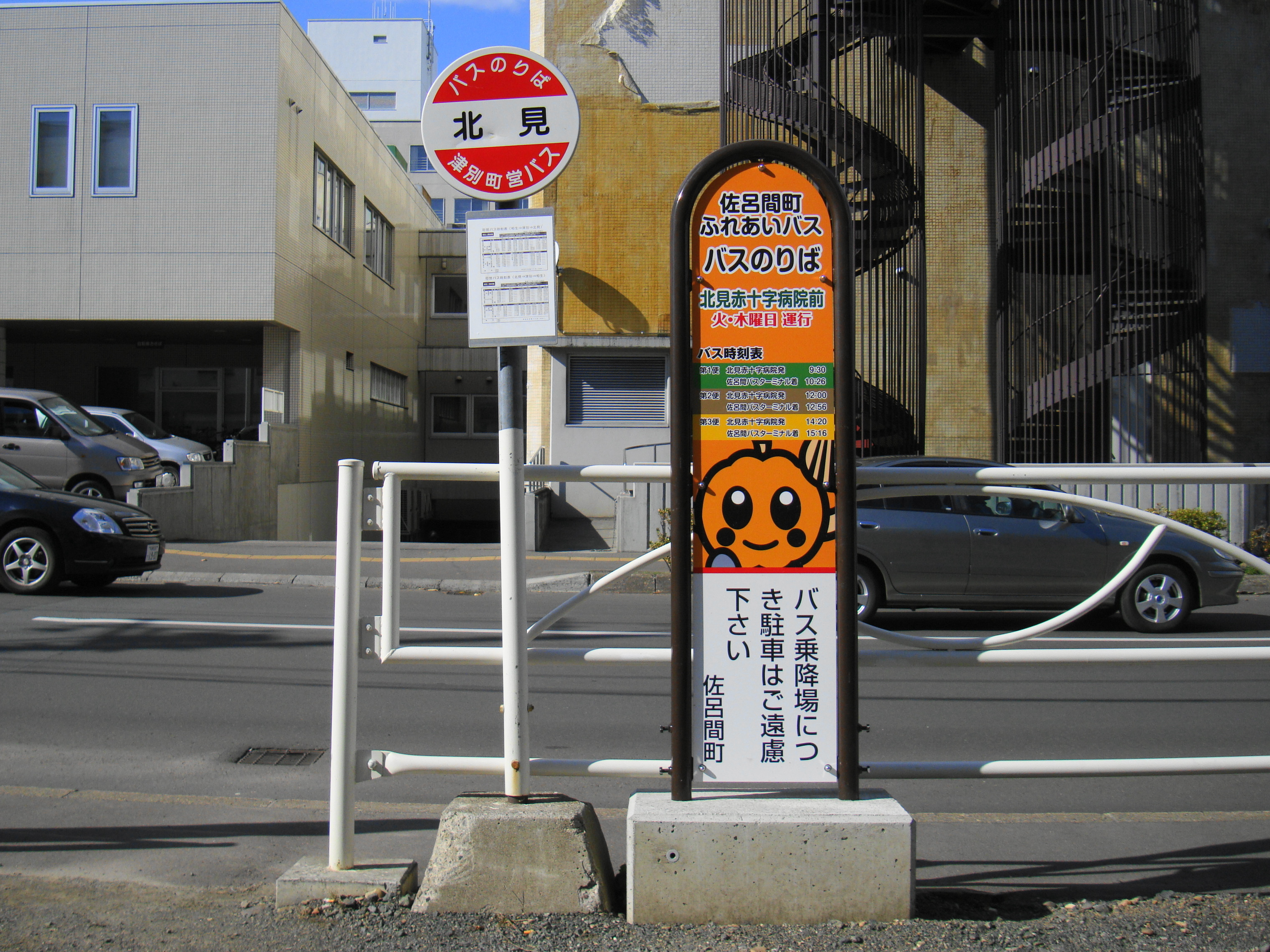 Tsubetsu Town Bus "Kitami", Saroma Town Bus "Kitami Sekijūji-Byōin" bus stop